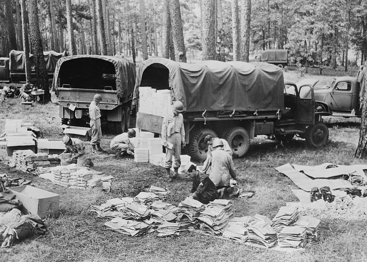 Cropped version of File:8e00006v.jpg Louisiana Maneuvers